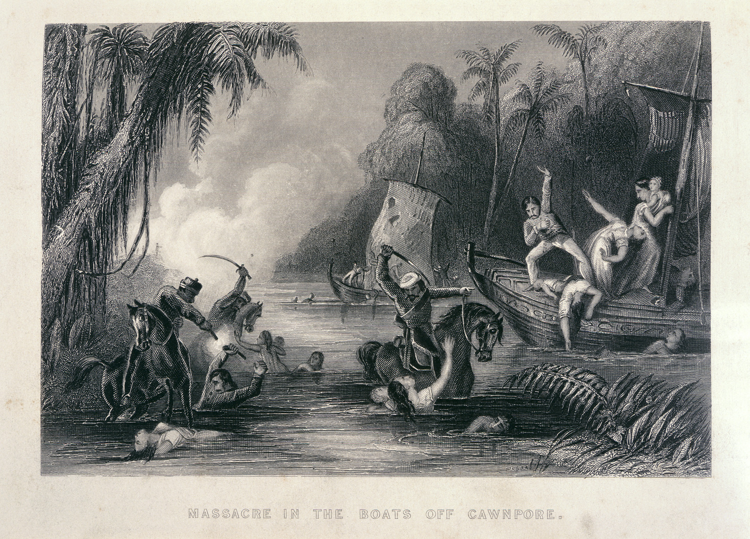 A contemporary engraving of the massacre at the Satichaura Ghat on 27 June 1857 following the Siege of Cawnpore during the 1857 Indian rebellion.